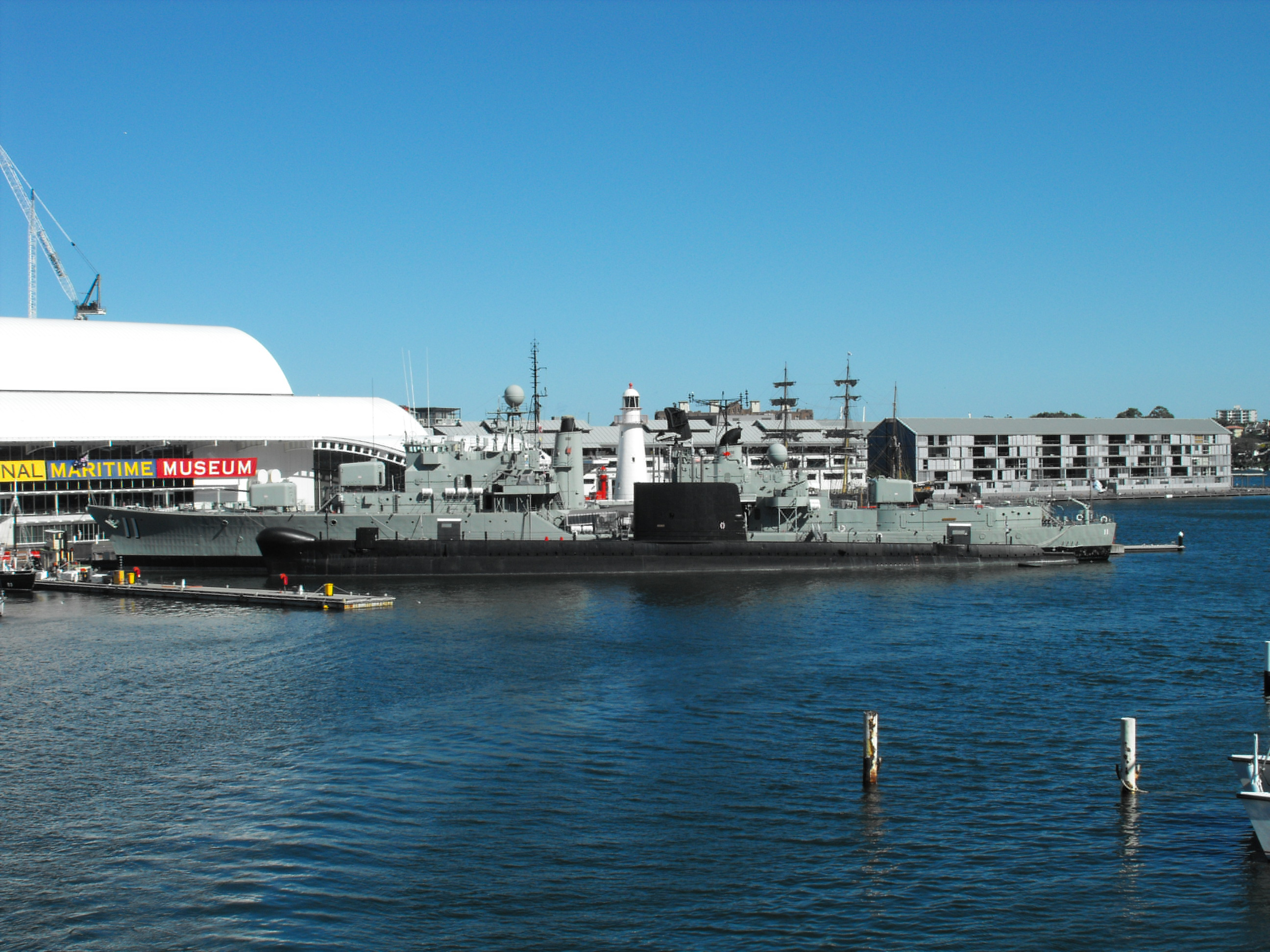 The destroyer HMAS Vampire and the submarine HMAS Onslow on display at the Australian National Maritime Museum